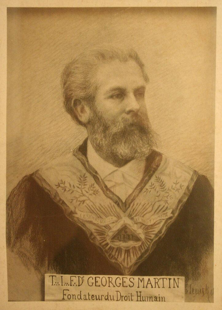 An old picture of Georges Martin, a founder of Co-Freemasonry, Le Droit Humain. From my Masonic hall, rephotographed by me (Fuzzypeg). The original artist is unknown, but the image is very old, and should pass the 100-years-since-author's-death test.